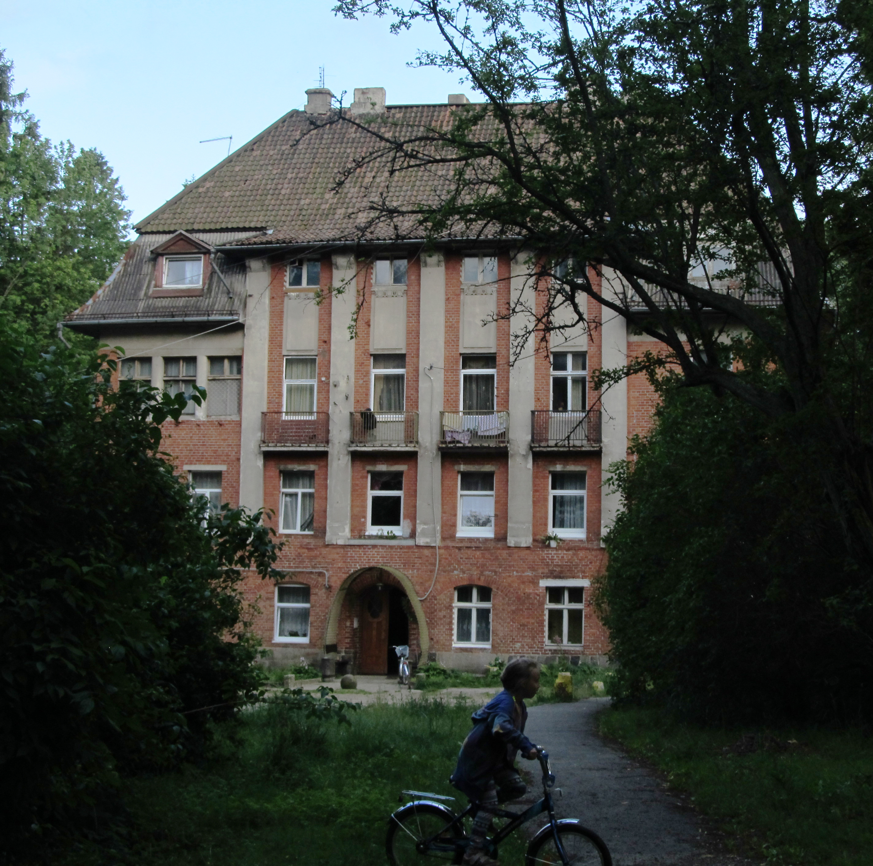 Bahnhof Georgenswalde, Now, Stantcionnaya St., 1, Otradnoje